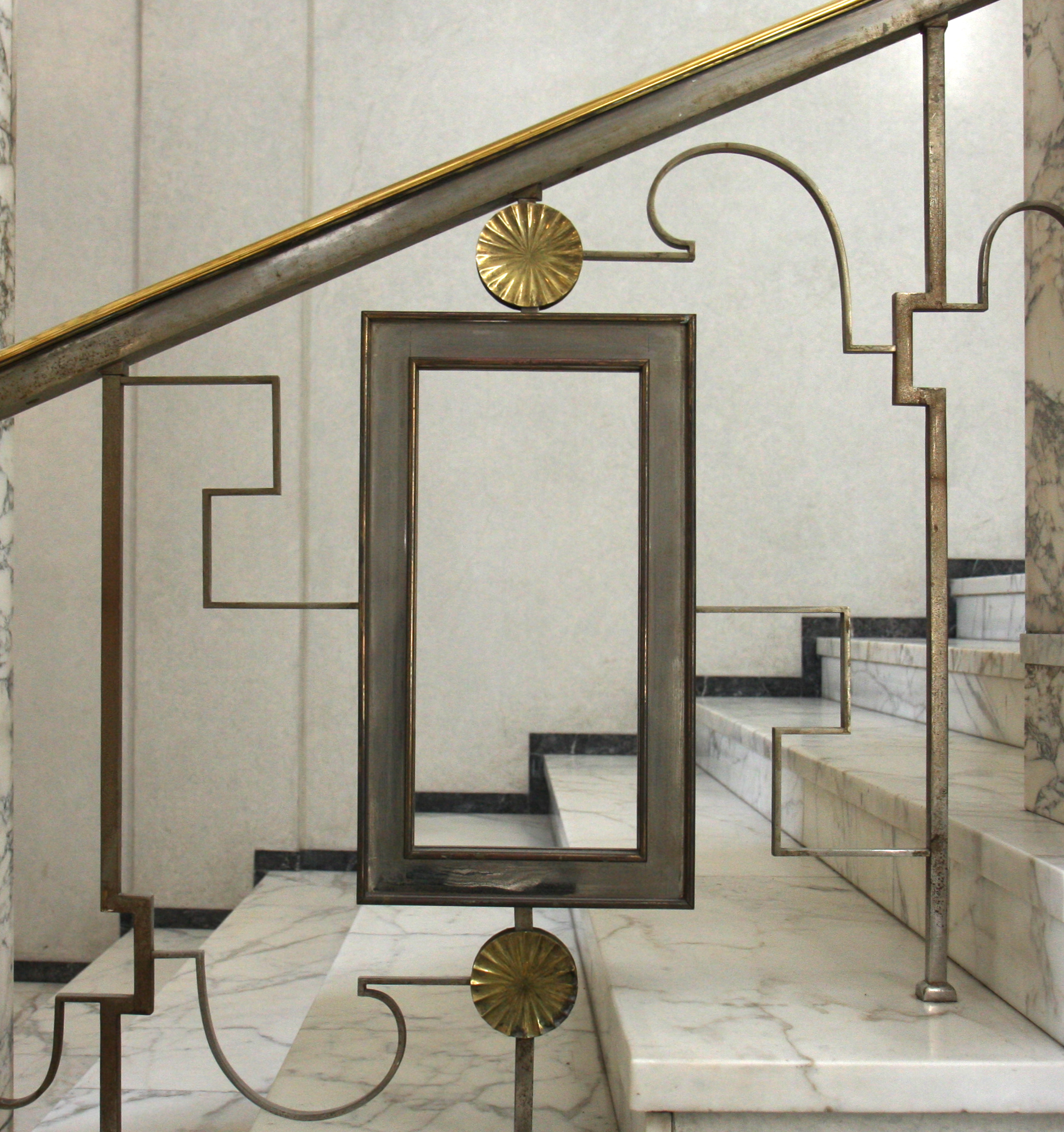 The Parliament House in Helsinki, Interior decoration.